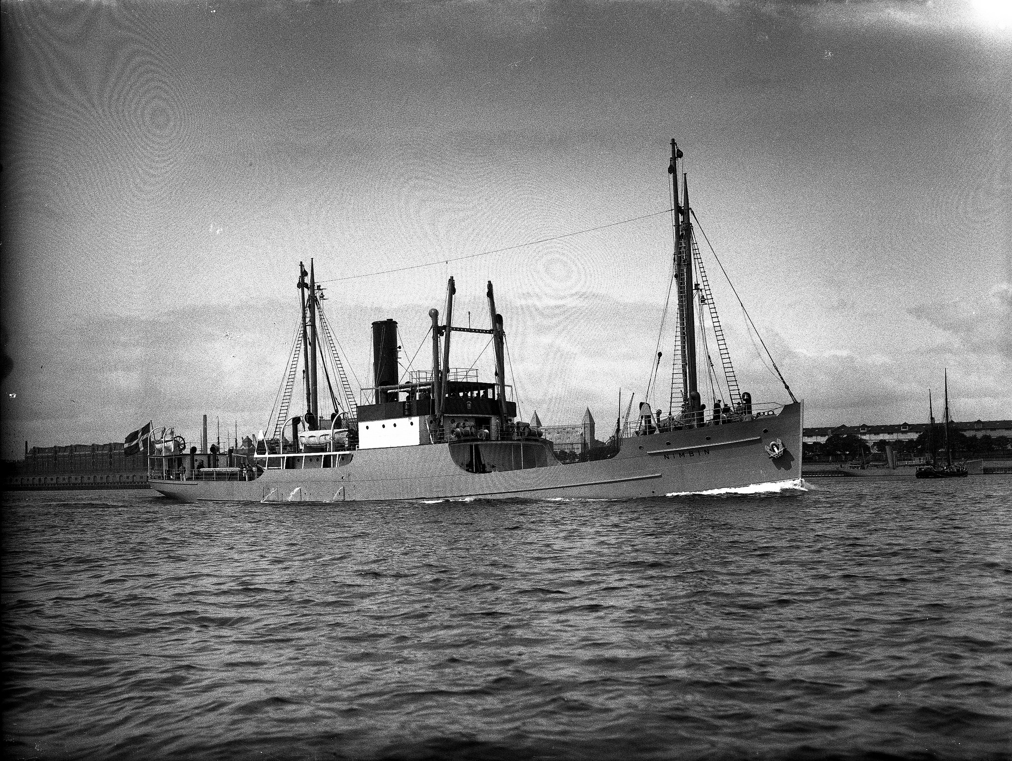 MV Nimbin when launched